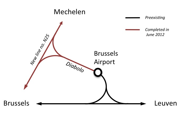 Plan of Diabolo project